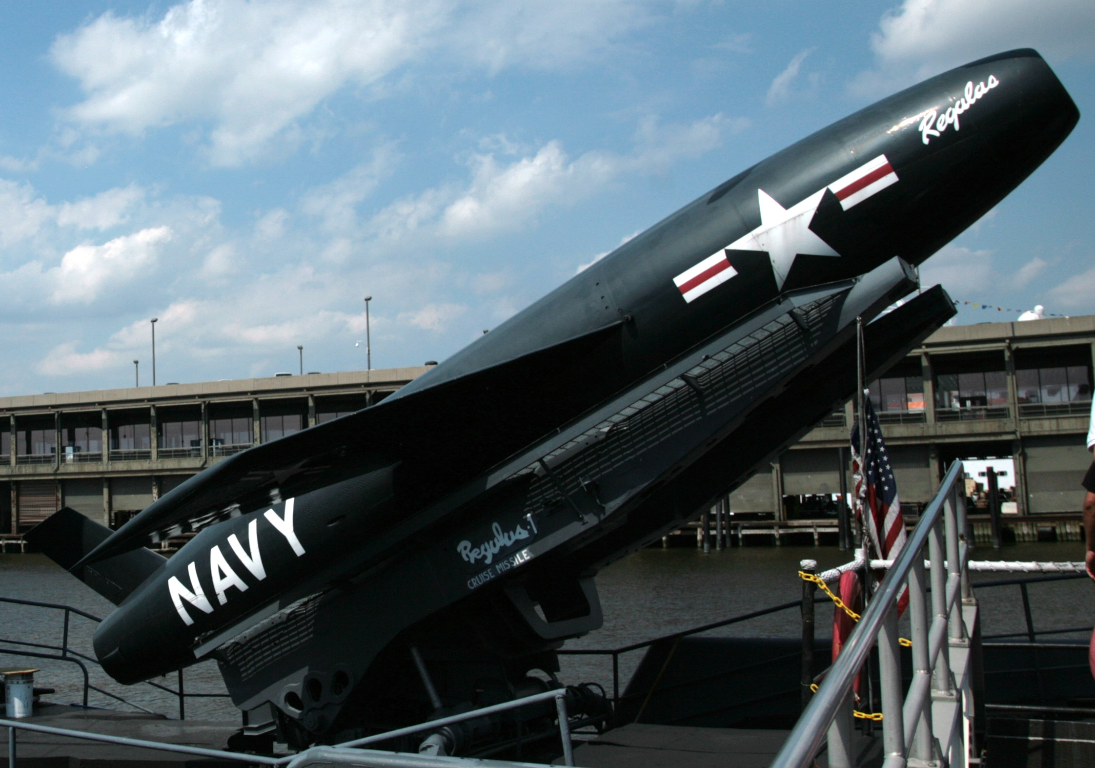 A Regulus I surface to surface nuclear missile raised in a launch position.